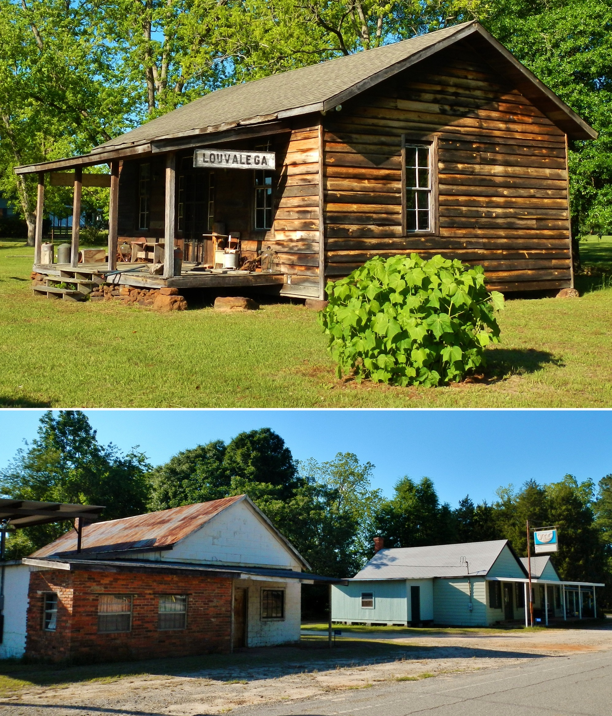 This is a photo collage of some of the buildings in Louvale, Georgia. The photos were all taken on April 24, 2012.